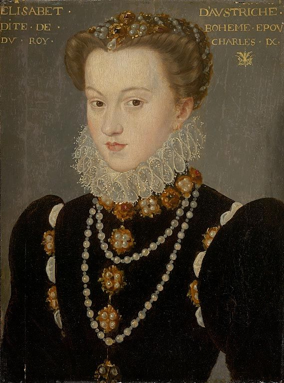 Elisabeth of Austria, Queen of France, daughter of Holy Roman Emperor Maximilian II. of Austria and Infanta Maria of Spain, wife of King Charles Charles IX. of France